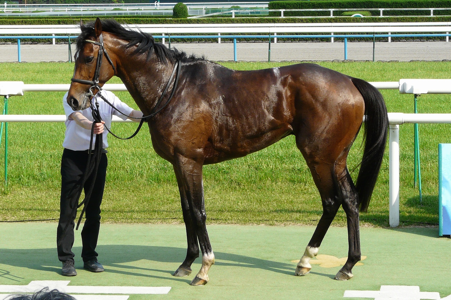 Neo-Vendome20110508